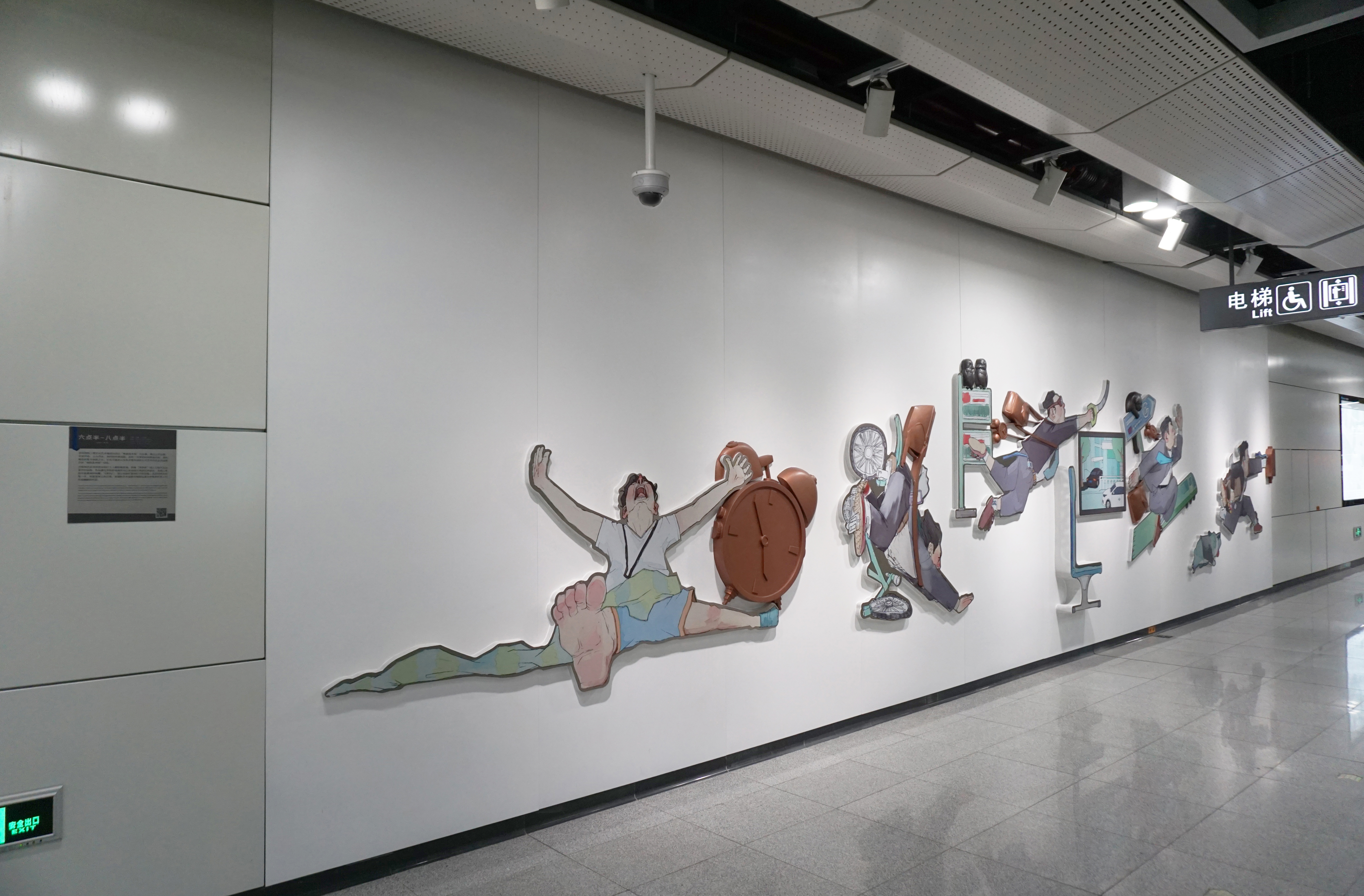 Shawei Station in Futian District, Shenzhen.